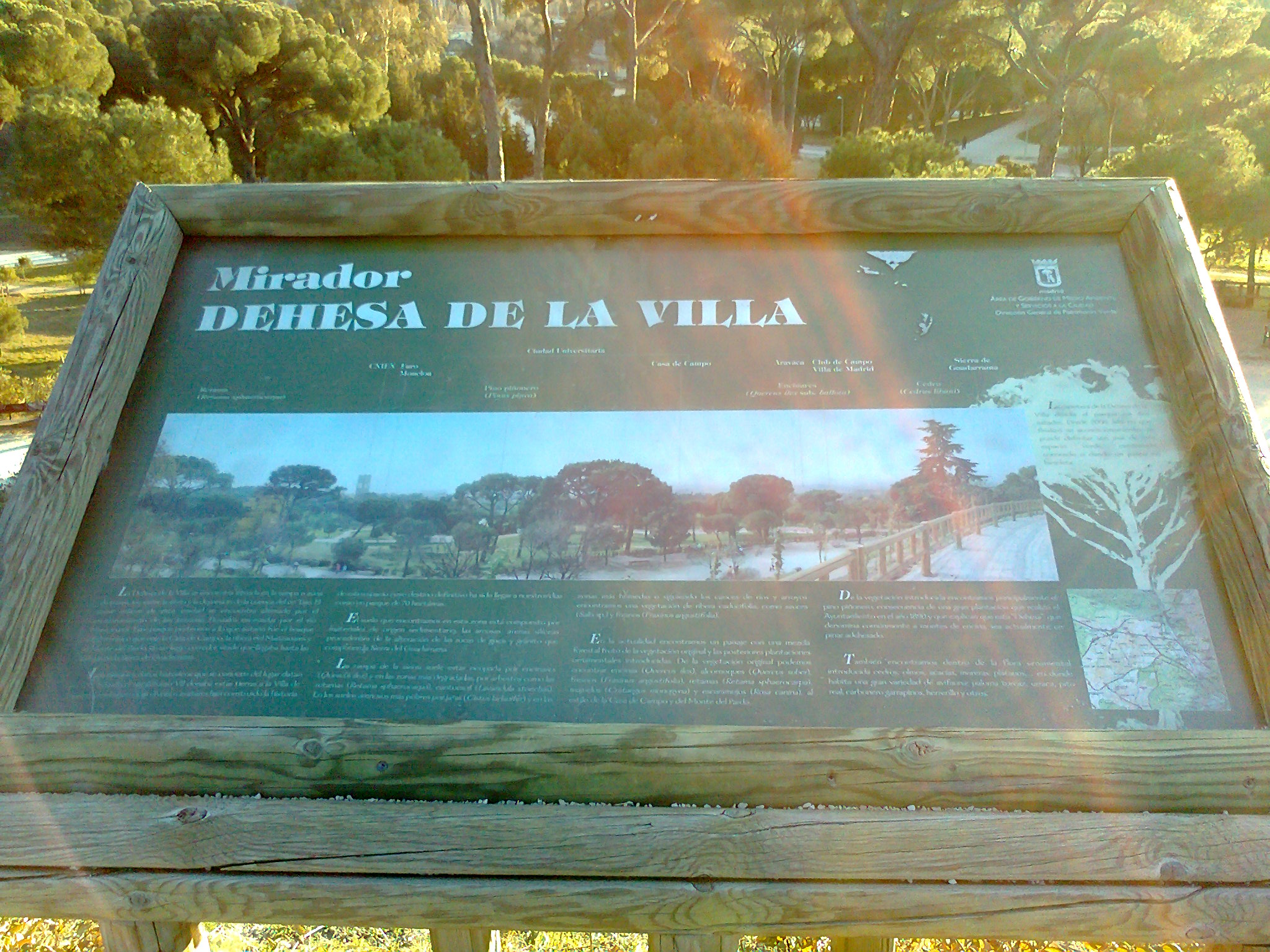 Notice explaining the landscape, Park of La Dehesa de la Villa, Madrid.